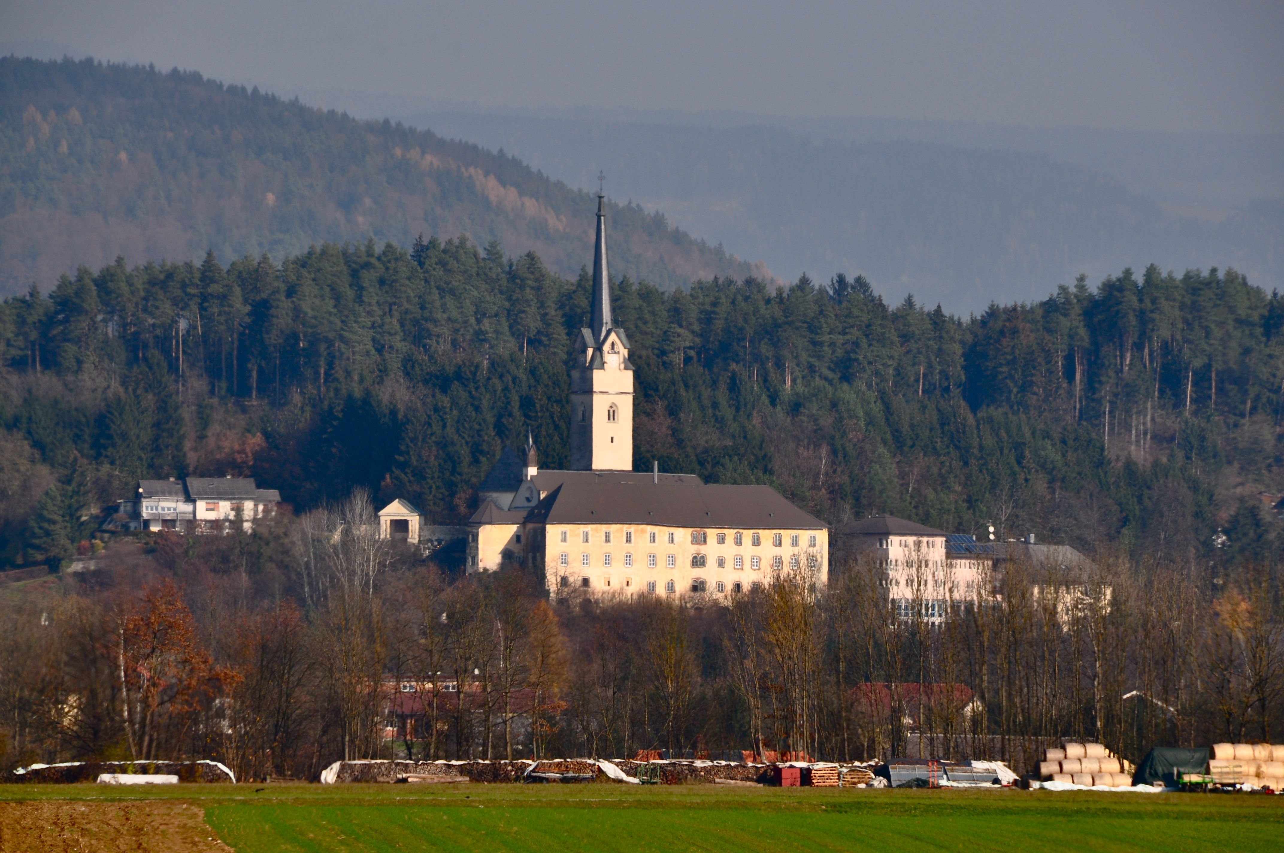 Collegiate church and priory building in Tainach #1, municipality Voelkermarkt, district Voelkermarkt, Carinthia, Austria, EU